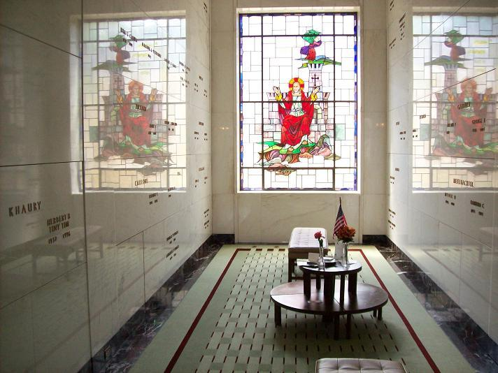 A room at the Lakewood Cemetery Mausoleum